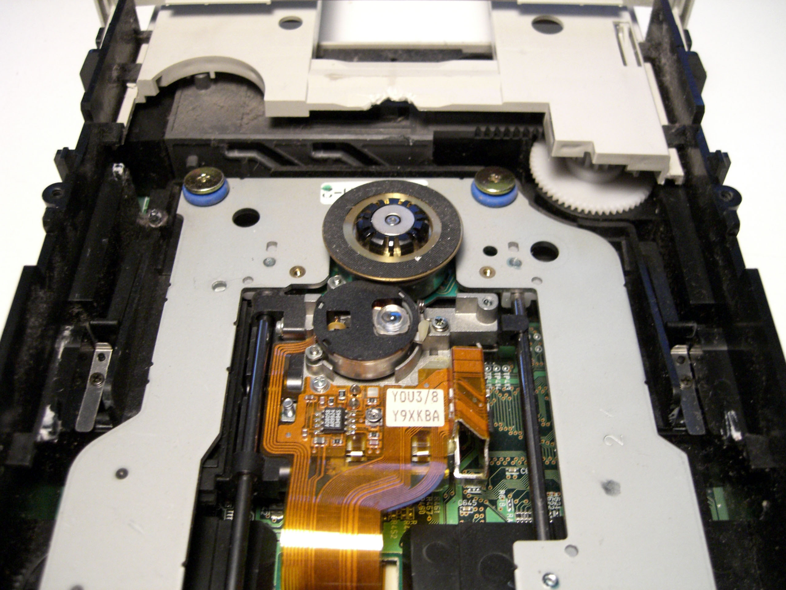 SCSI CD Writer Open.